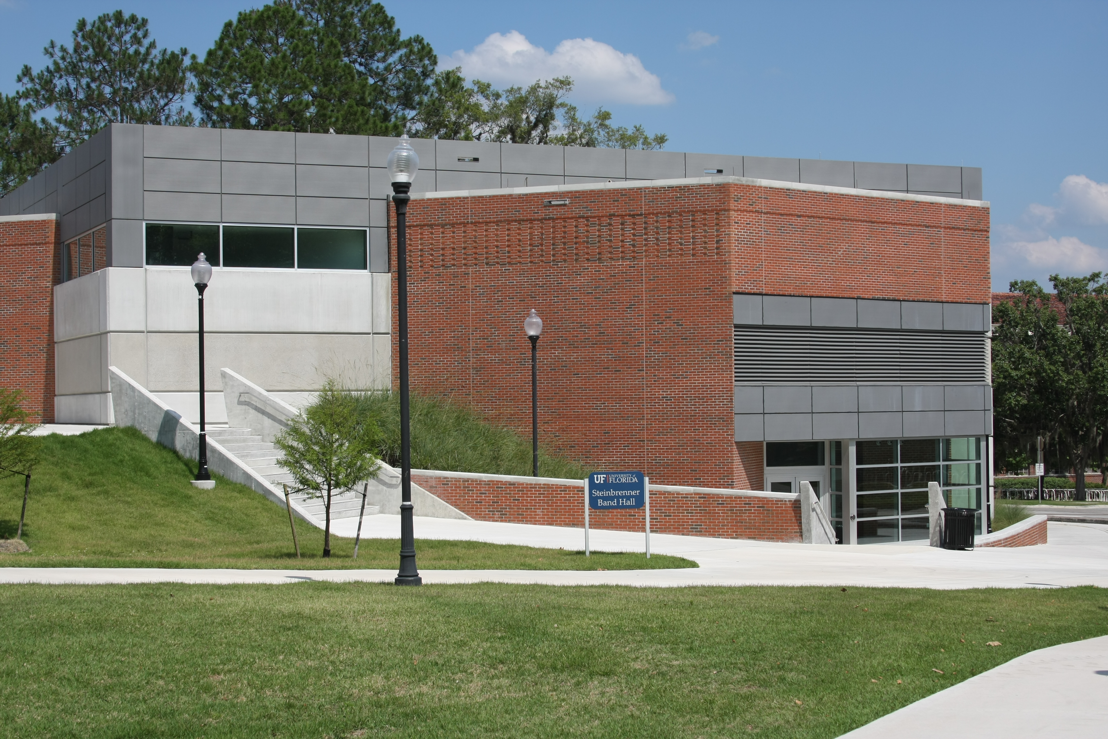 Streinbreanner Band Hall at the University of Florida